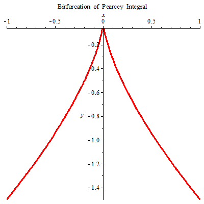 Bifurcation of Pearcey Integral